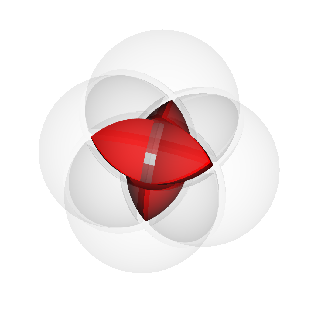 The 15 cells of these Venn diagrams (except the surrounding) correspond to the vertices of the tesseracts tetrahedral shadow. This is a 4 shphere Venn diagram, representing a 4-ary Boolean function. The spheres stand for sets or statements A, B, C, D. Examples: A ∩ B {\displaystyle A\cap B} ∩ {\displaystyle \cap } C {\displaystyle C~} = {\displaystyle =~} A ∩ B ∩ C {\displaystyle A\cap B\cap C} ∩ {\displaystyle \cap } = {\displaystyle =~} A ∩ B ∩ C {\displaystyle A\cap B\cap C} ∩ {\displaystyle \cap } D {\displaystyle D~} = {\displaystyle =~} A ∩ B ∩ C ∩ D {\displaystyle A\cap B\cap C\cap D} ∩ {\displaystyle \cap } = {\displaystyle =~} { } C {\displaystyle \{\}^{C}~} ∖ {\displaystyle \setminus ~} D {\displaystyle D~} = {\displaystyle =~} D C {\displaystyle D^{C}~} ∖ {\displaystyle \setminus ~} = {\displaystyle =~} The POV-Ray source is given for File:Venn 0000 0001 0001 0110.png and File:Venn 1111 1111 0000 0000.png.